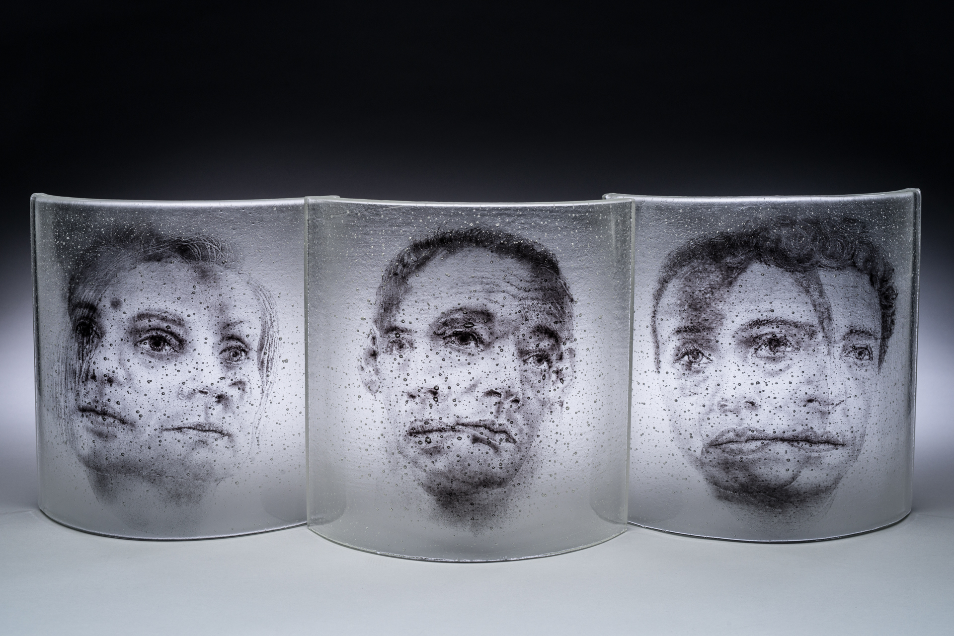 Michael Janis, "Echoes"; kilnformed glass, glass sgraffito imagery, 2015. This sculpture was the show image used by the Pittsburgh Society for Contemporary Craft traveling exhibition titled 'Mindful: Exploring Mental Health through Art' (2015-2018). The show's goals were to break down societal stigmas and offers an opportunity to encounter and understand mental health through the lens of contemporary craft. The exhibit had more than 40 works created by 14 contemporary artists in the project’s main exhibition.